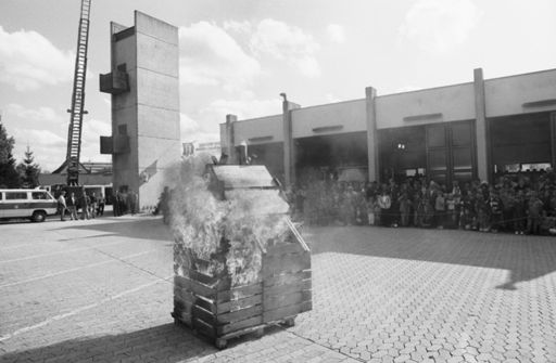 Local paper #85